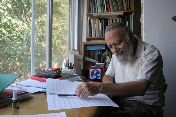 Composer Andre Hajdu at his home, Givat Mordechai, Jerusalem